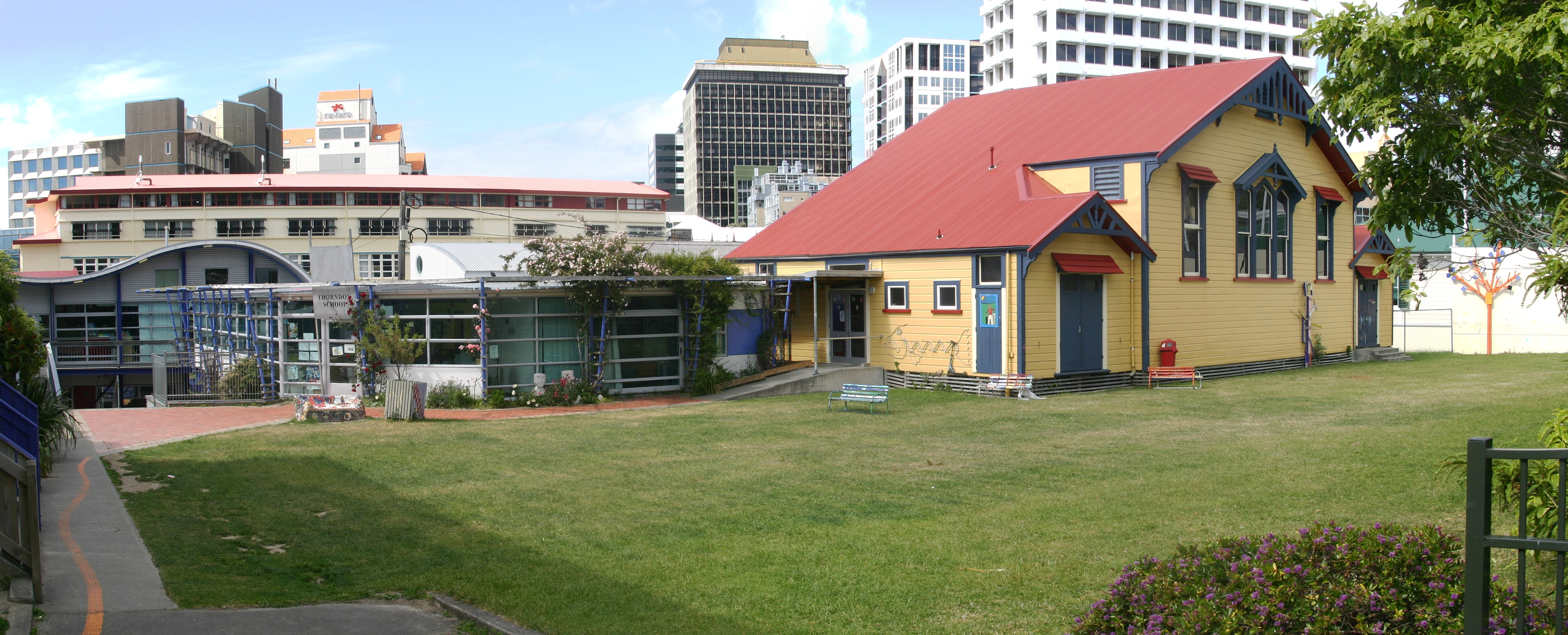 Thorndon School from Turnbull Street gate. School hall is the building to the right, administration block and staff room are to the left. Wellington, New Zealand. Panorama of two images stitched together with Hugin